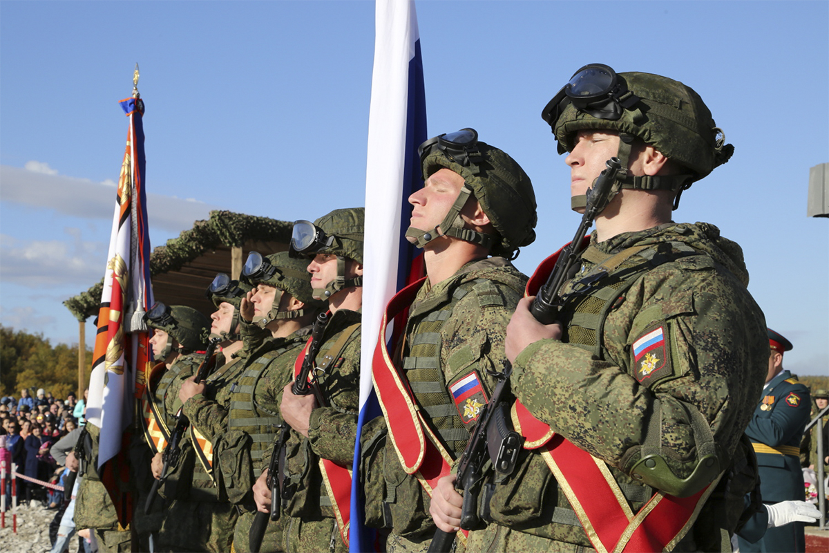 Tankman's Day in Russian 200th Separate Motor Rifle Brigade.